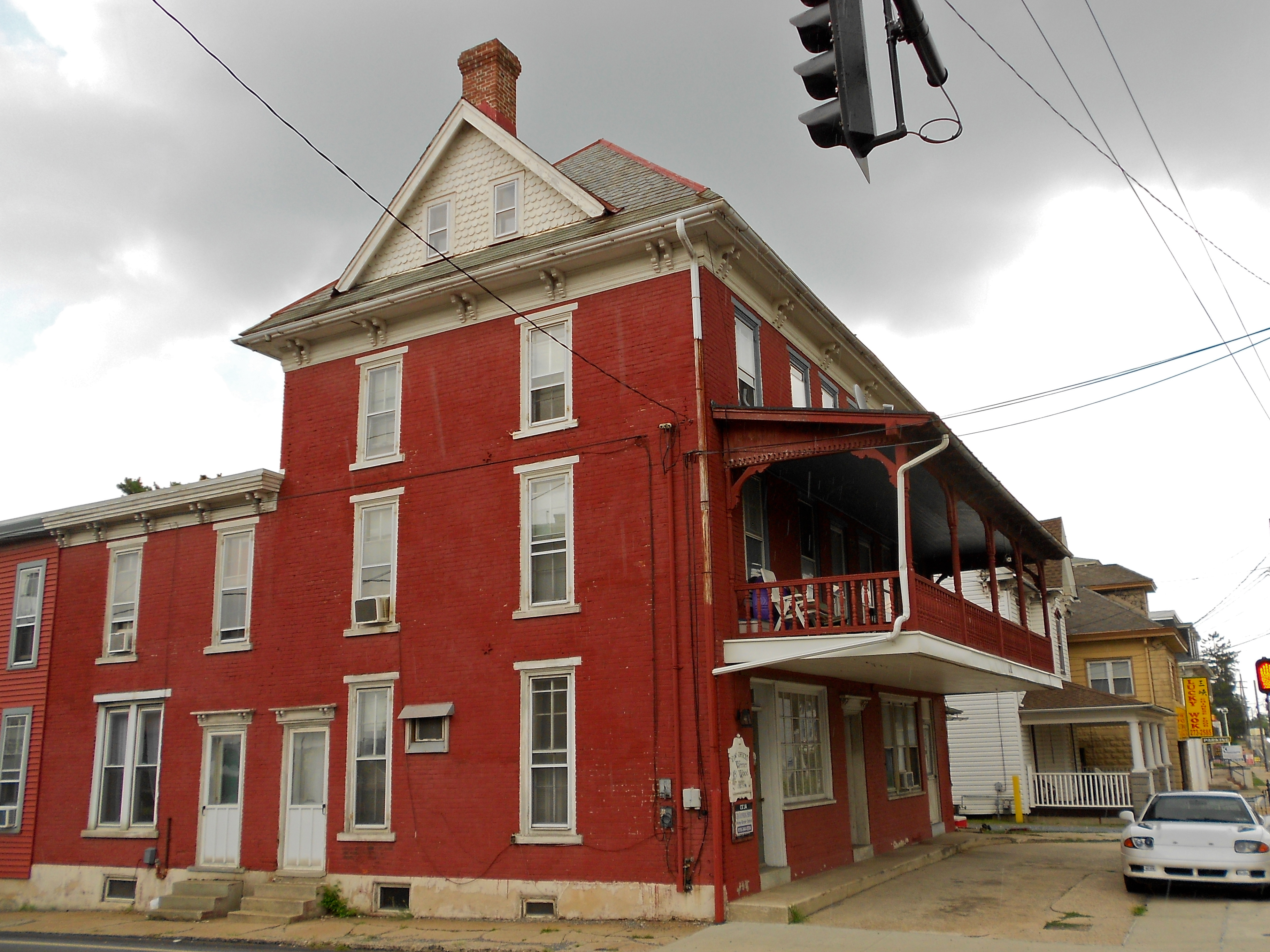 House at the main corner of Honey Brook, Pennsylvania in Chester County, Pennsylvania on US 322 (about as far NW as Chester County goes)